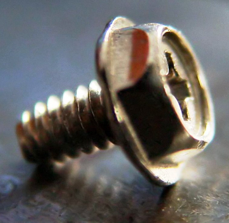 A screw usually used in computers.